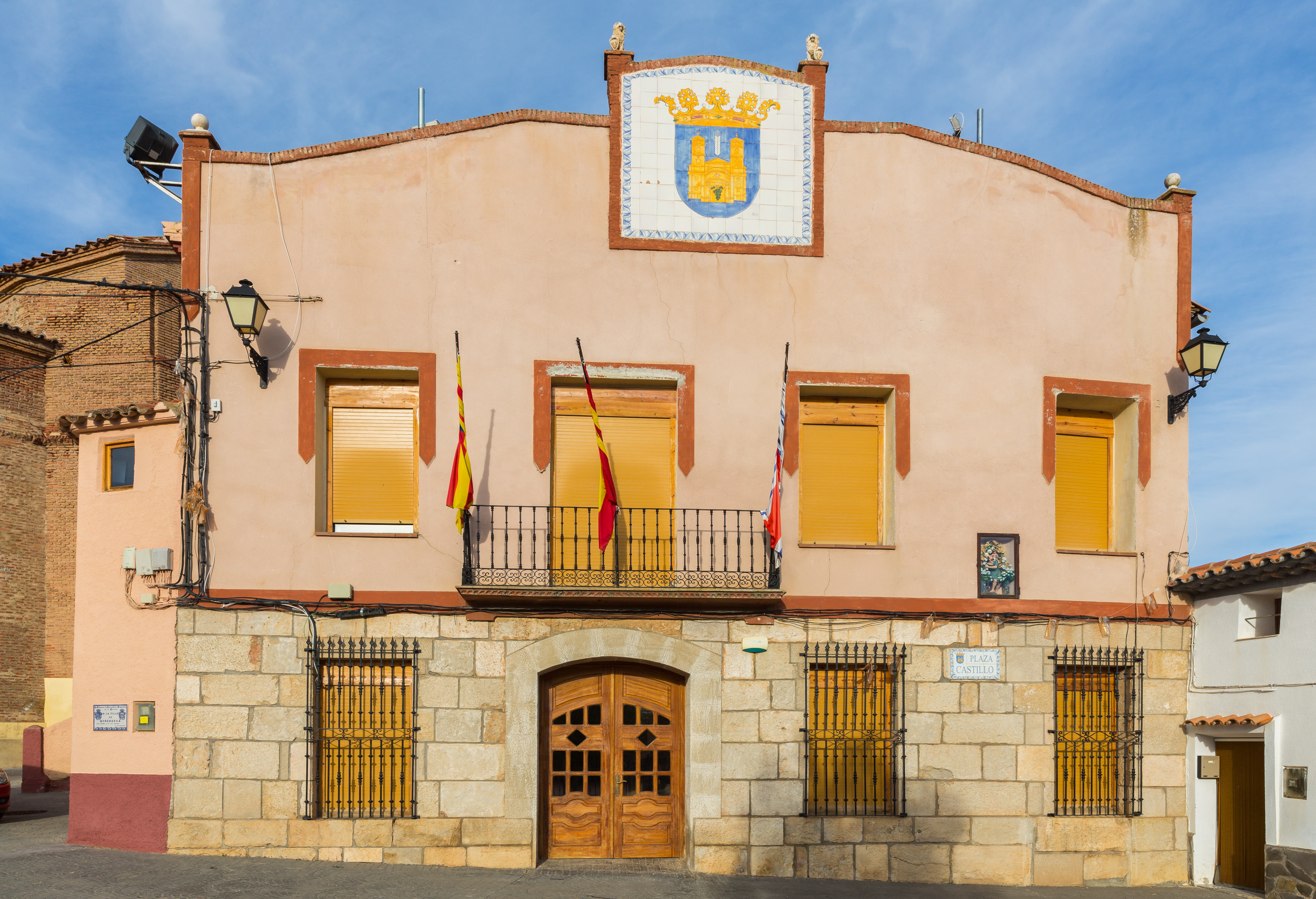 Town hall, Munébrega, Zaragoza, Spain